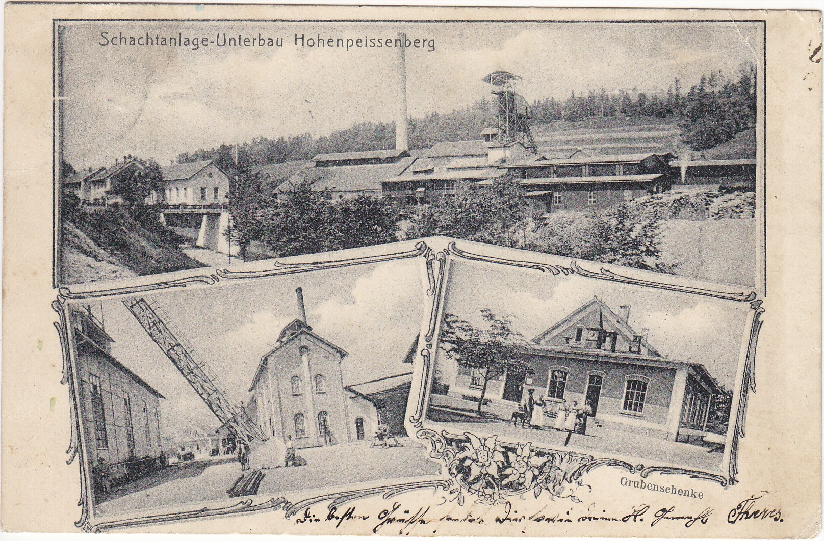 picture postcard of the unterbau-shaft in Hohenpeissenberg, Germany